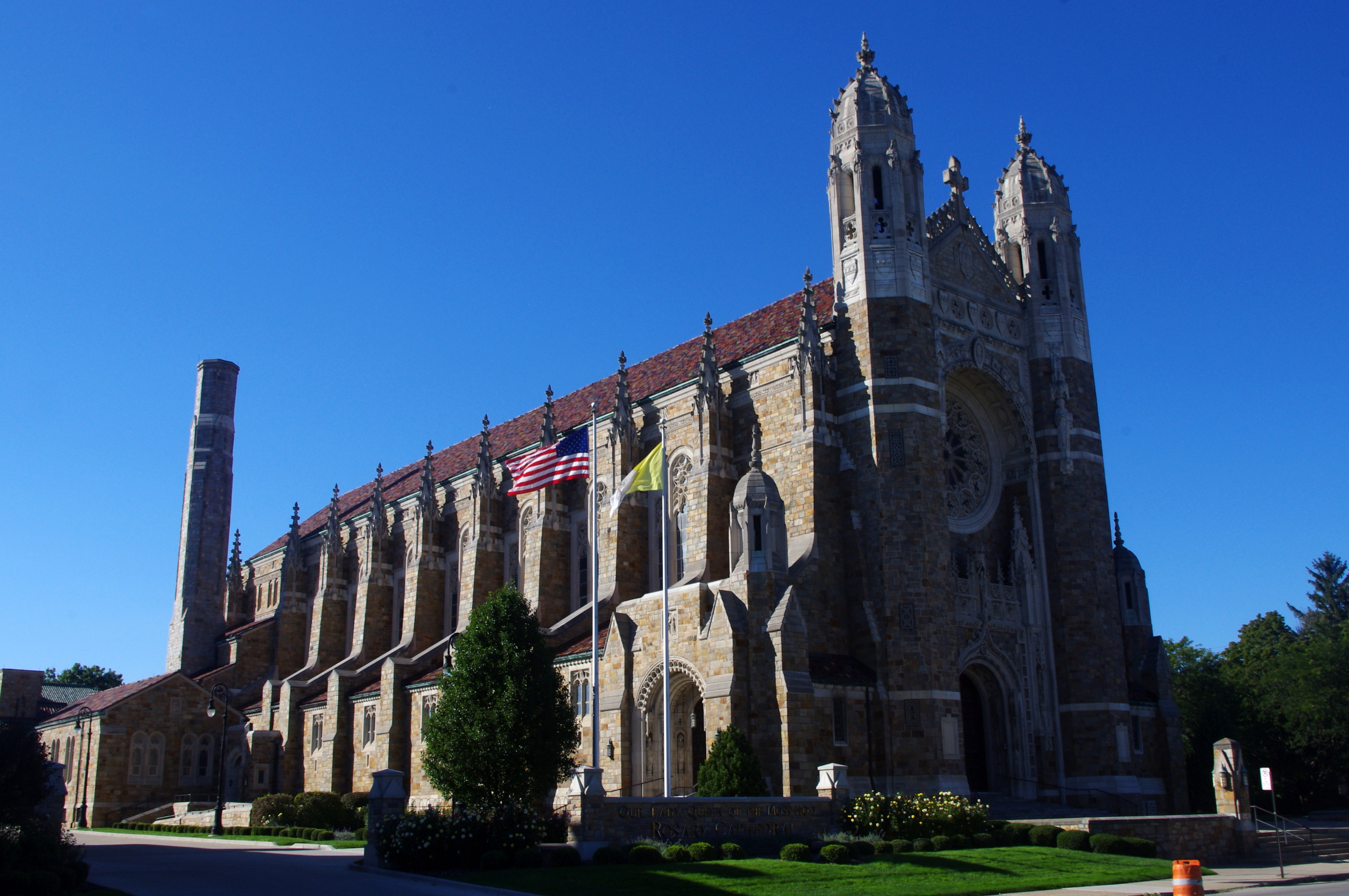 Our Lady Queen of the Most Holy Rosary Cathedral (Toledo, Ohio) - exterior